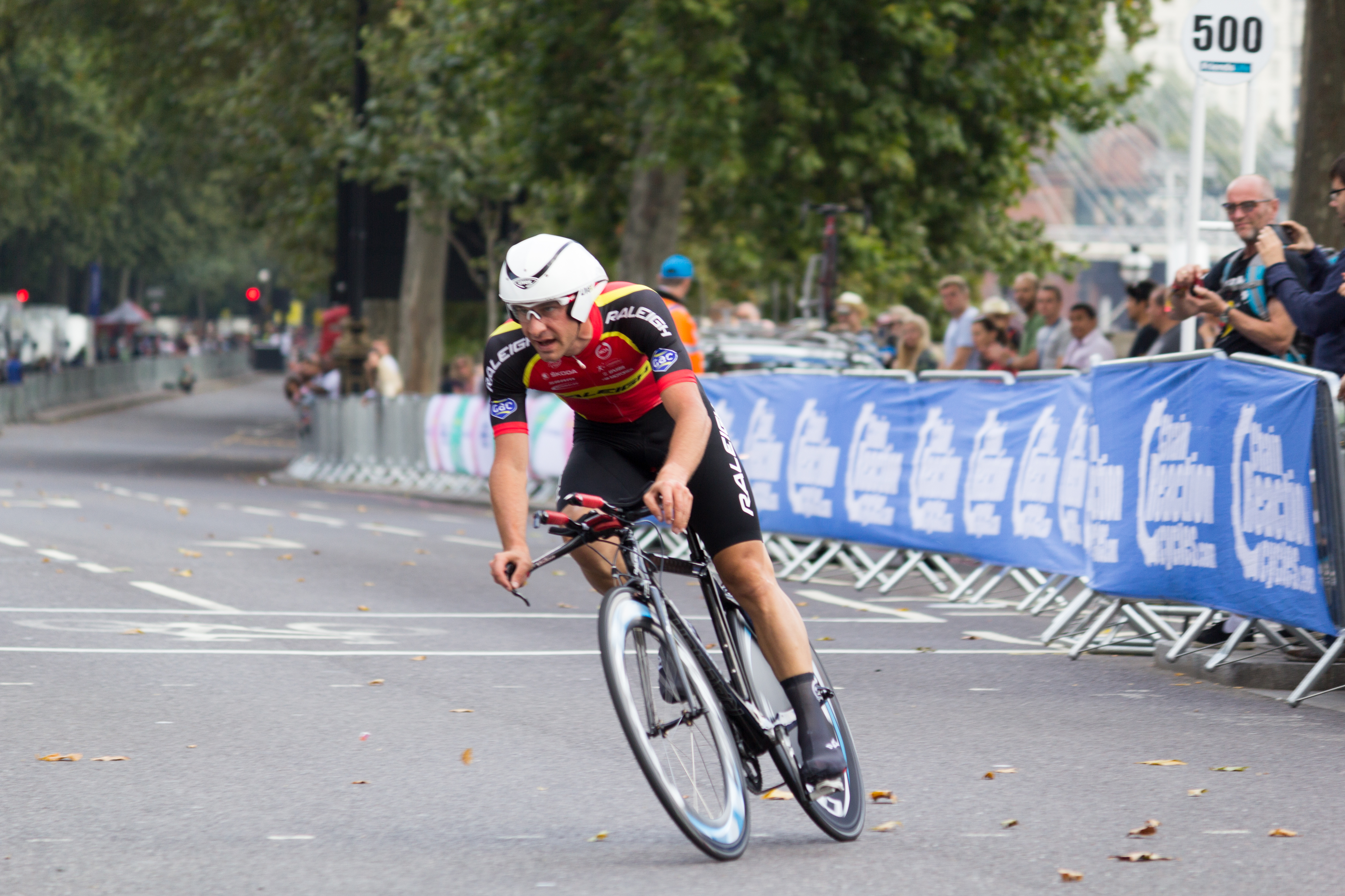 Tour of Britain 2014 stage 8a - London time trial